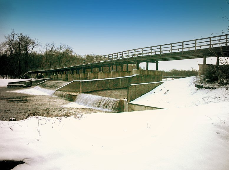 Winter impression of Flaucher area at river Isar in the southern part of München: Flauchersteg and Flaucher barrages